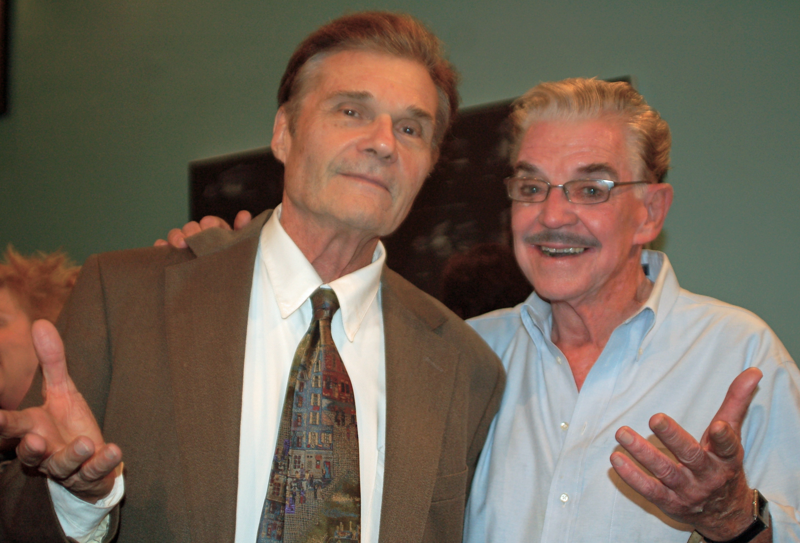 Fred Willard and Jack Betts in the Green Room at the Marilyn Monroe Theatre after a performance of Barrymore.